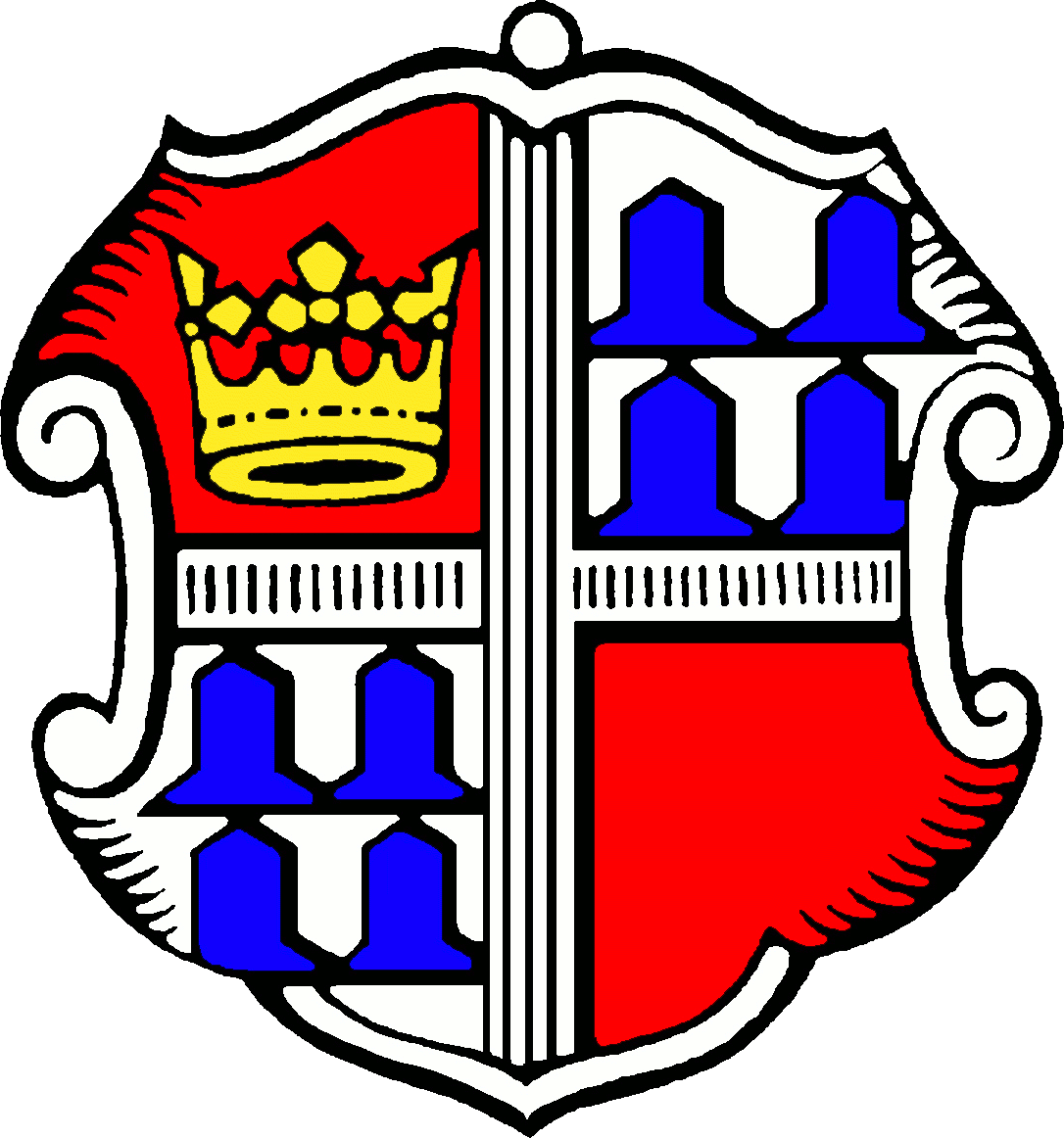 Coat of arms of the town Wörth a.Main